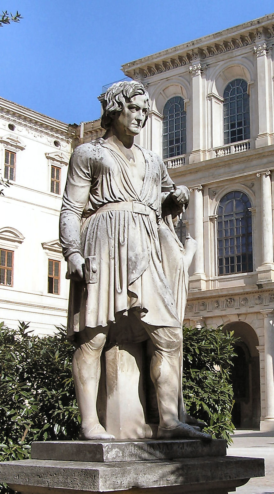 Copy of the statue Thorvaldsen and the goddess of hope, selfportrait by Bertel Thorvaldsen (the original was sculpted in 1839), in front of Palazzo Barbarini, Rome.